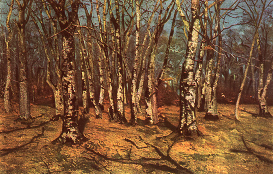 Beech Forest/Padurea de fagi by Ion ANDREESCU